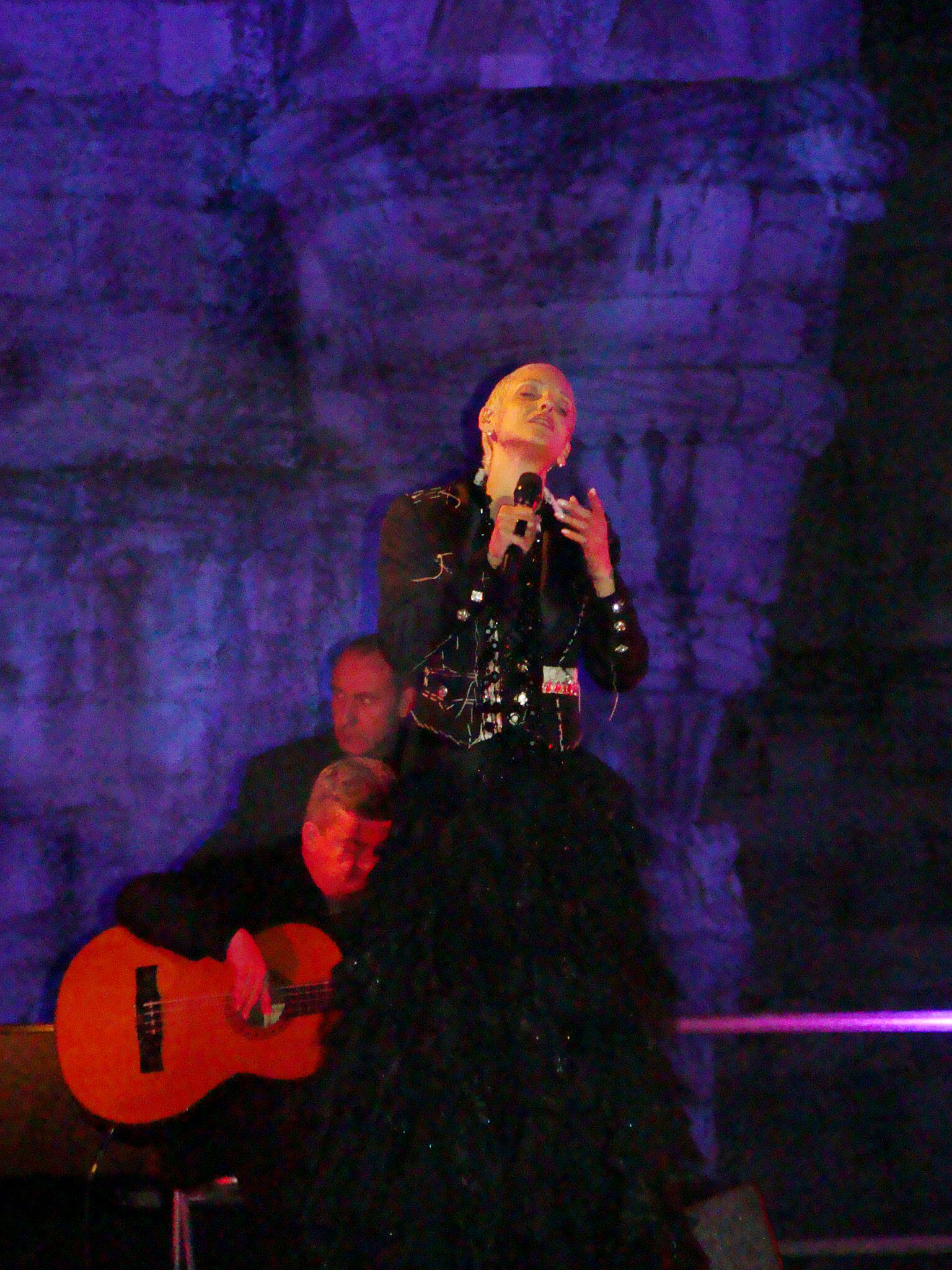 Mariza's concert at the Torre de Belém on 09/05/08